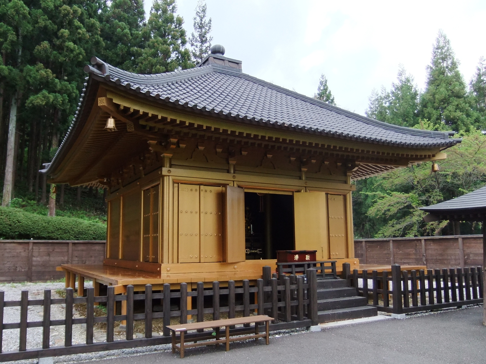 Konjiki-dō at Esashi-Fujiwara Heritage Park.